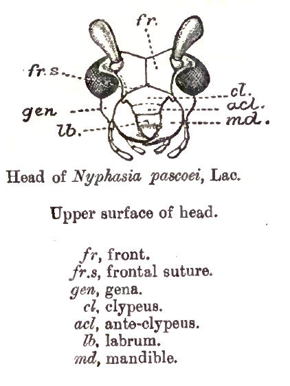 Terminology of Nyphasia pascoei (Cerambycidae) head